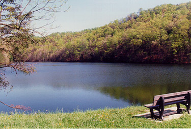 This is an image of Eagle Lake on the Morehead State University campus.